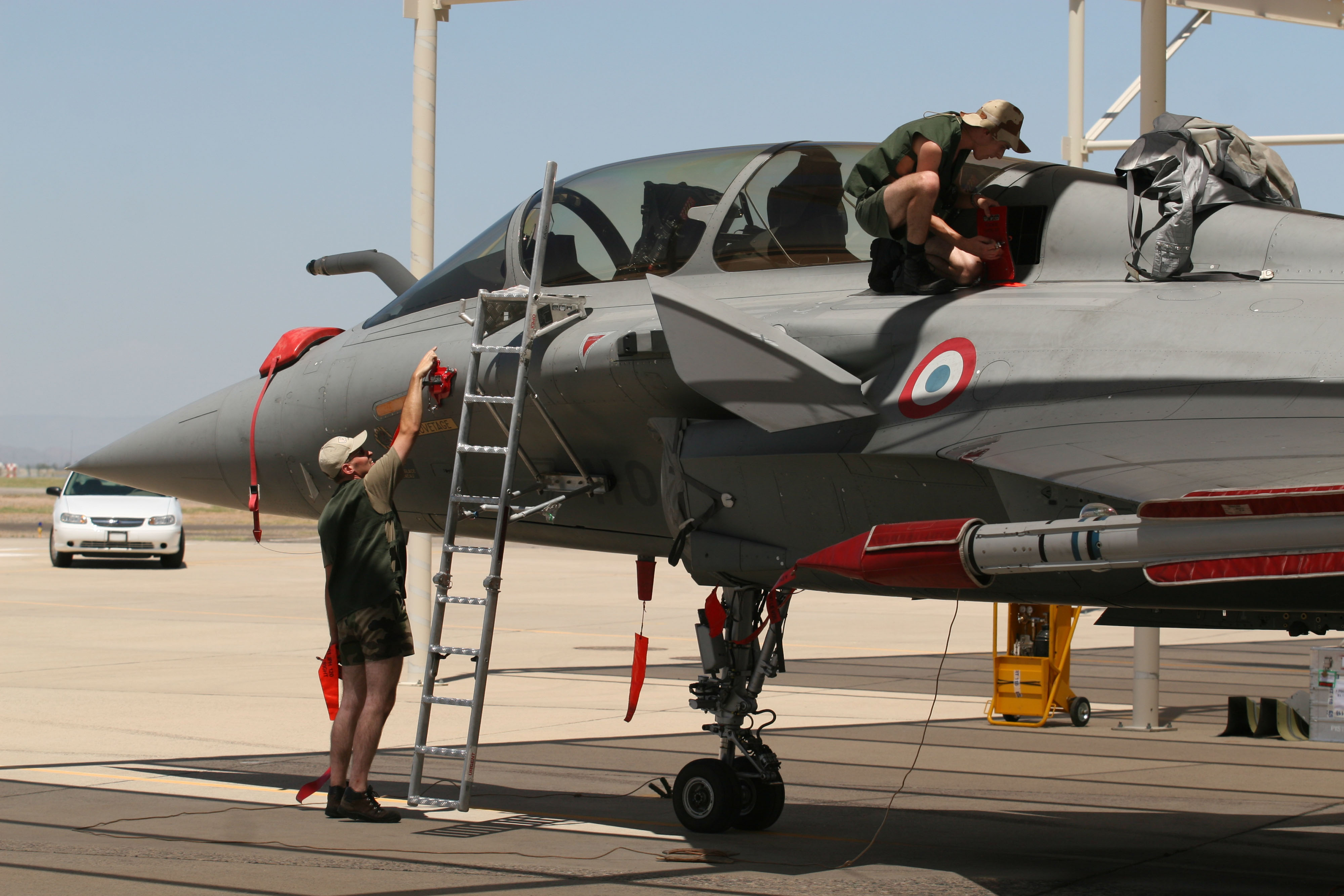 Two French air force maintainers work on their Rafale aircraft July 29 during a visit to Luke Air Force Base, Ariz. Four aircraft and more than 80 French airmen deployed to Luke AFB to participate in a joint exercise.